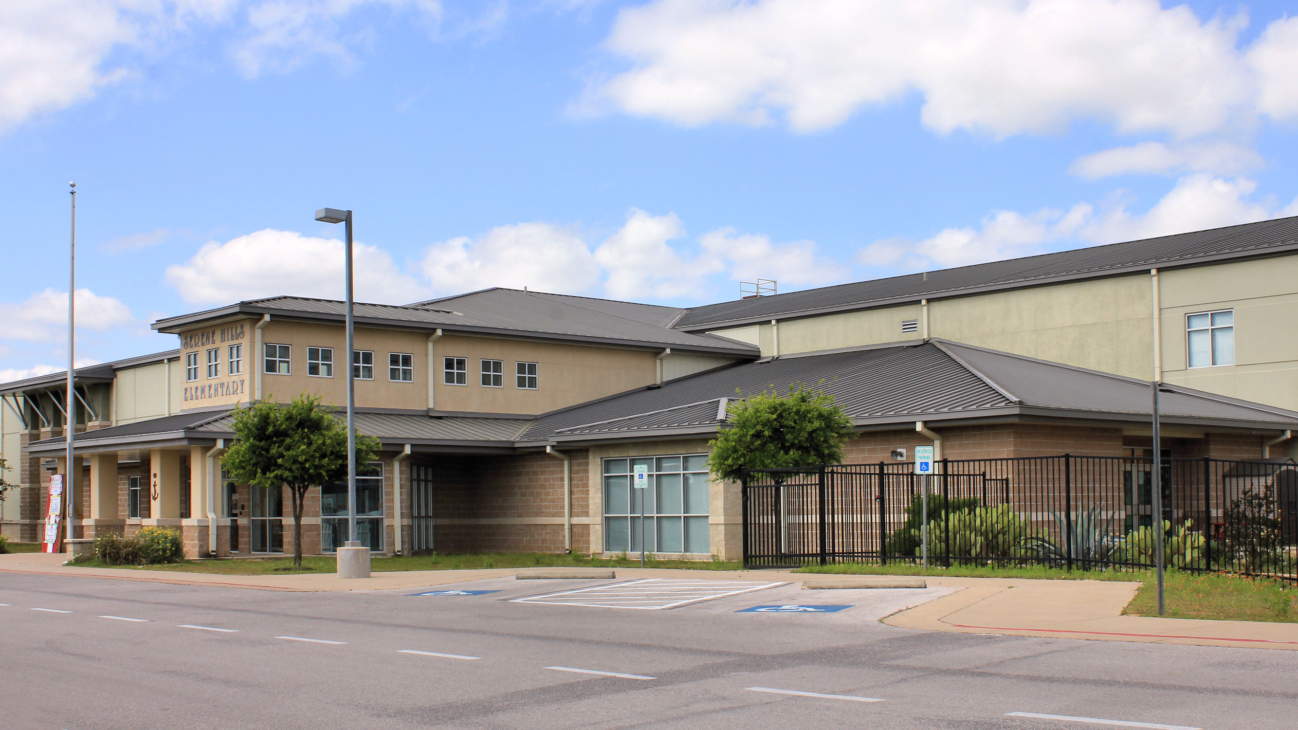 Serene Hills Elementary School in the Lake Travis Independent School District, Lakeway, Texas, United States.